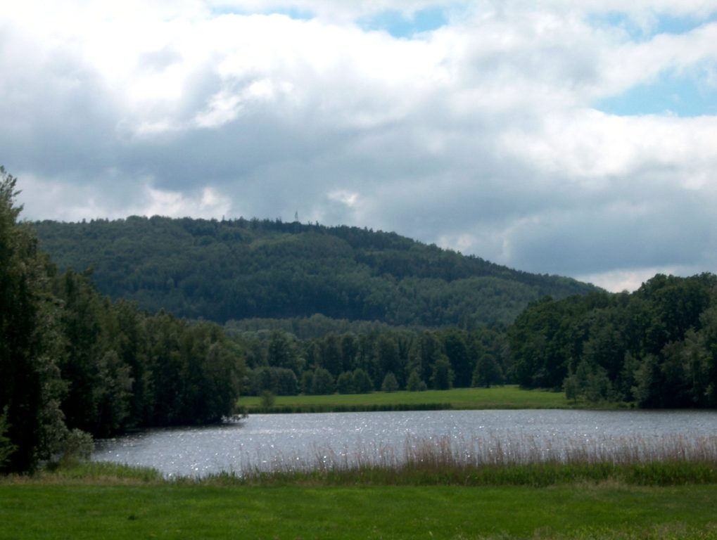 View to Mount Klosterberg from Rothnaußlitz